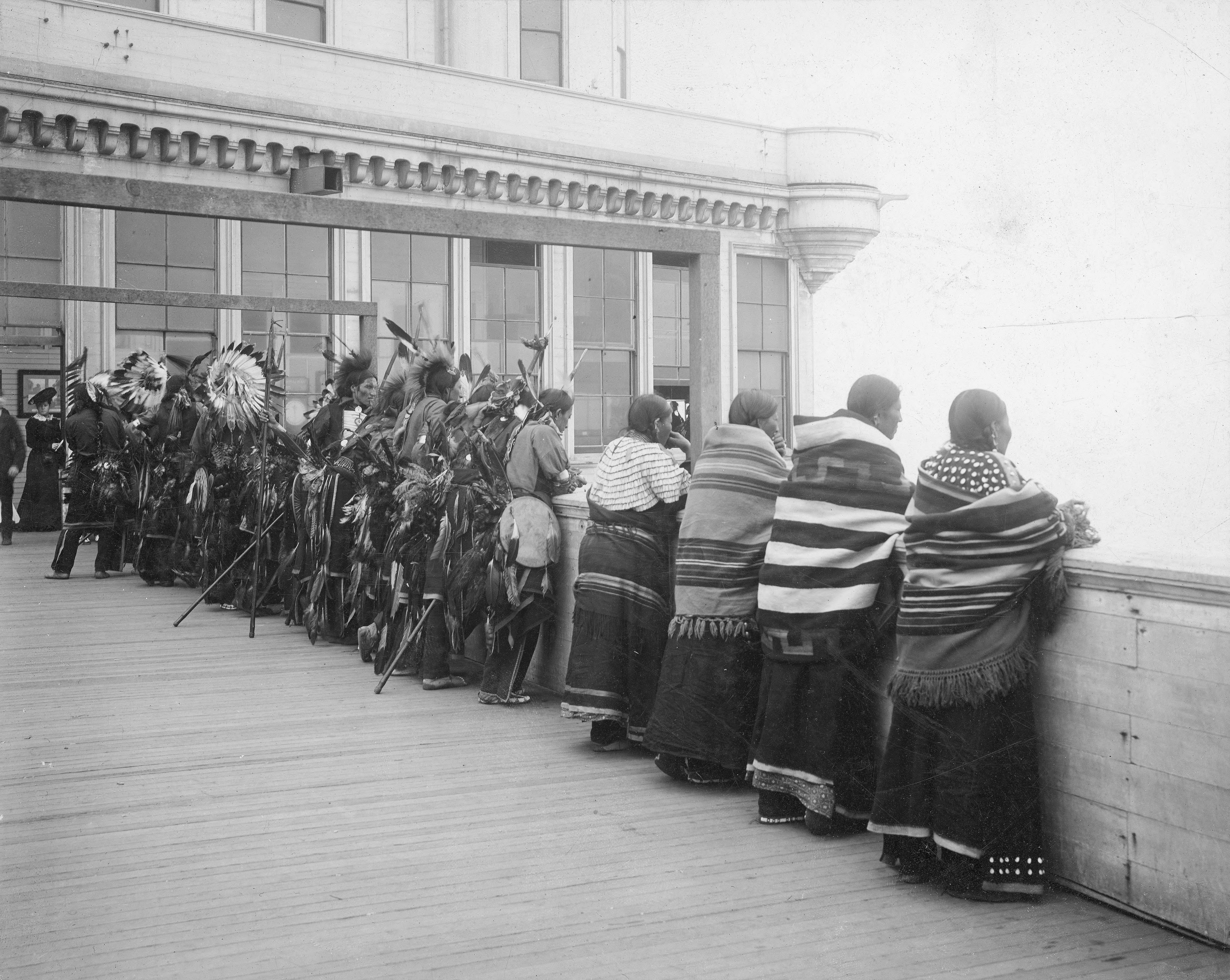 Native Americans wearing traditional regalia from Buffalo Bill's Wild West on deck of Cliff House in San Francisco, California.